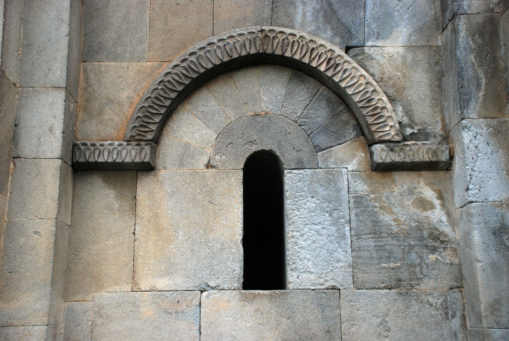 Barhal (Altiparmak), near Yusufeli, Artvin province, Georgian church, window on east side